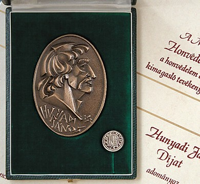 János Hunyadi prize